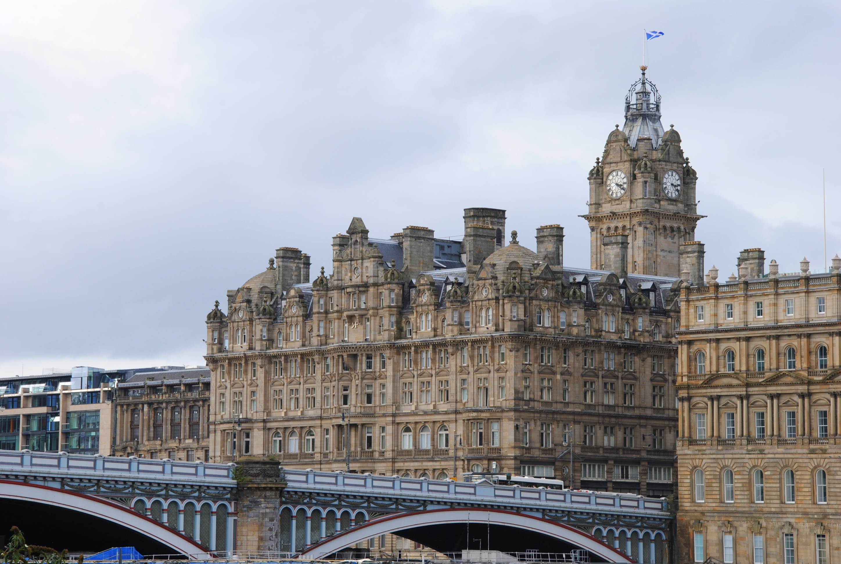 Edinburgh city centre, Scotland.